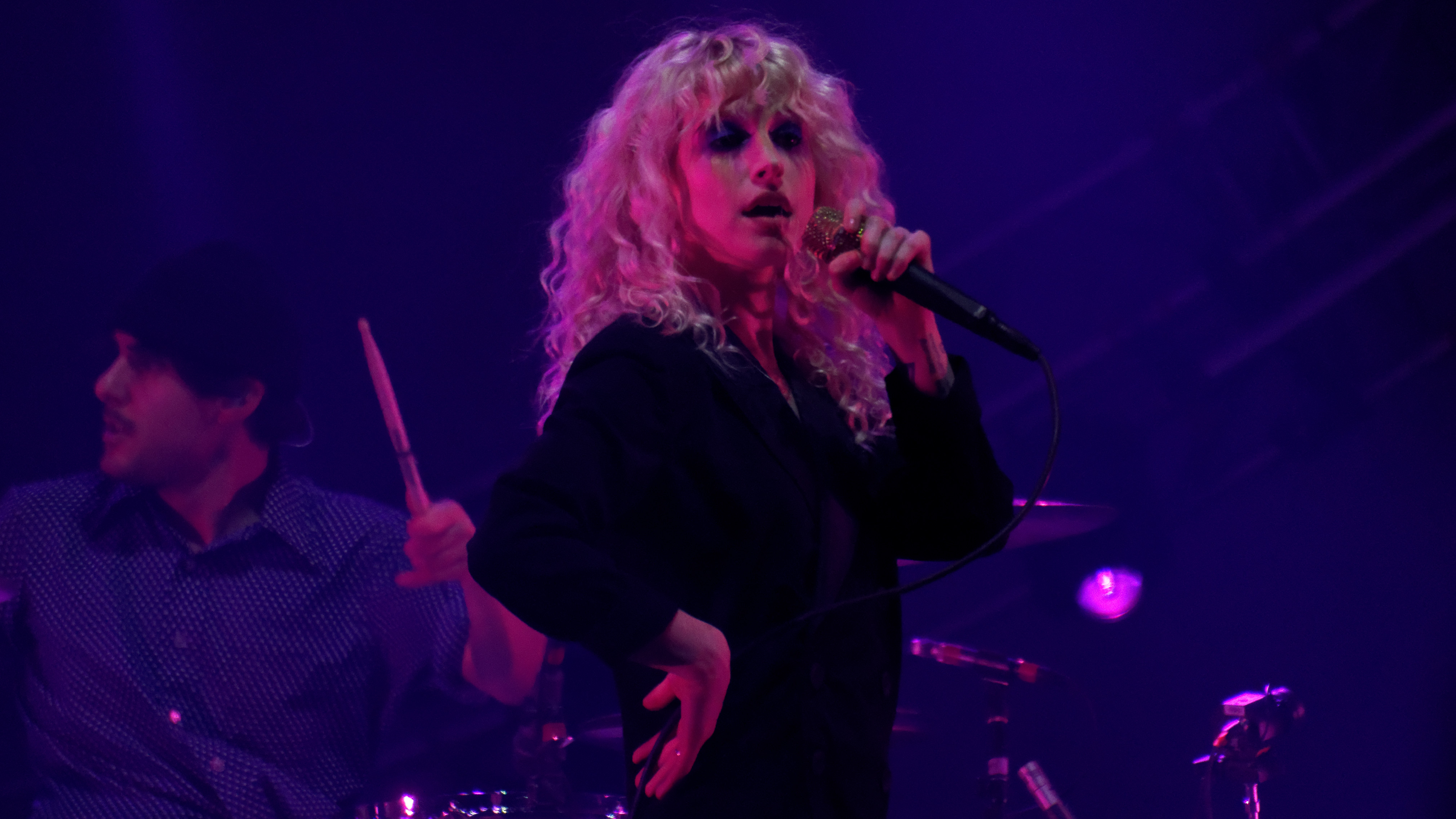 DSC03892ParamoreO2Jan18